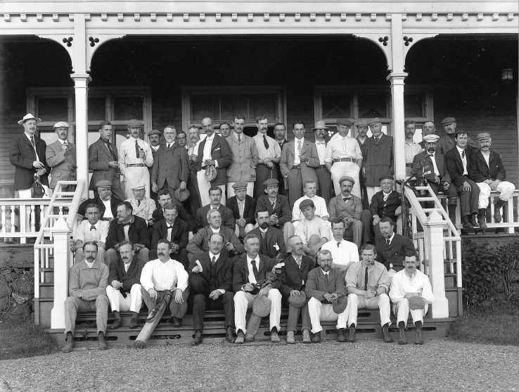 Photograph, Royal Montreal Golf Club group, Dorval, QC, 1907, Wm. Notman & Son, Silver salts on glass - Gelatin dry plate process, 20 x 25 cm